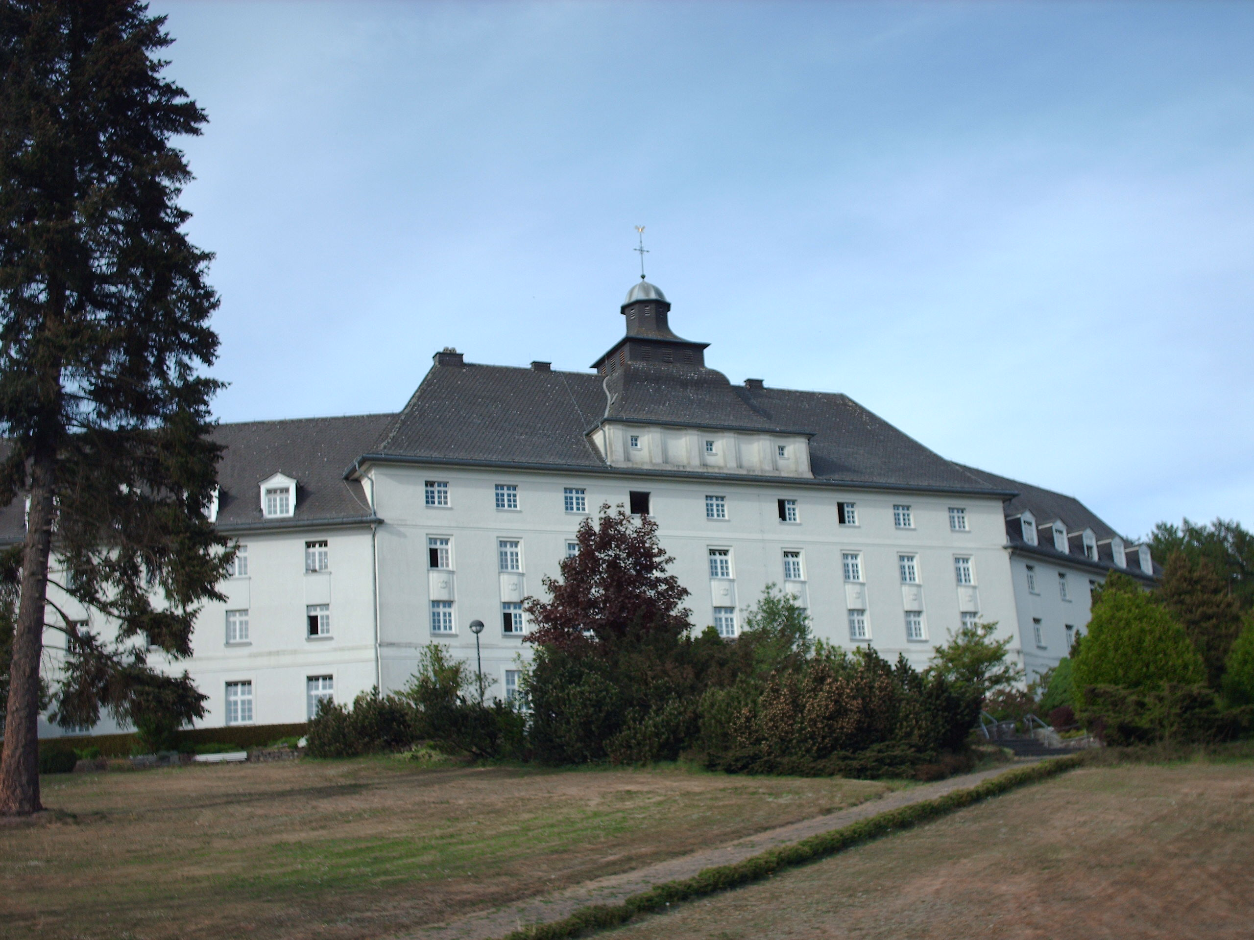 Pallottihaus (former Pallottines Monastery), Olpe, Germany check usage